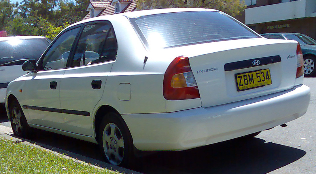 2000–2003 Hyundai Accent (LC) GL sedan. Photographed in Gymea, New South Wales, Australia.